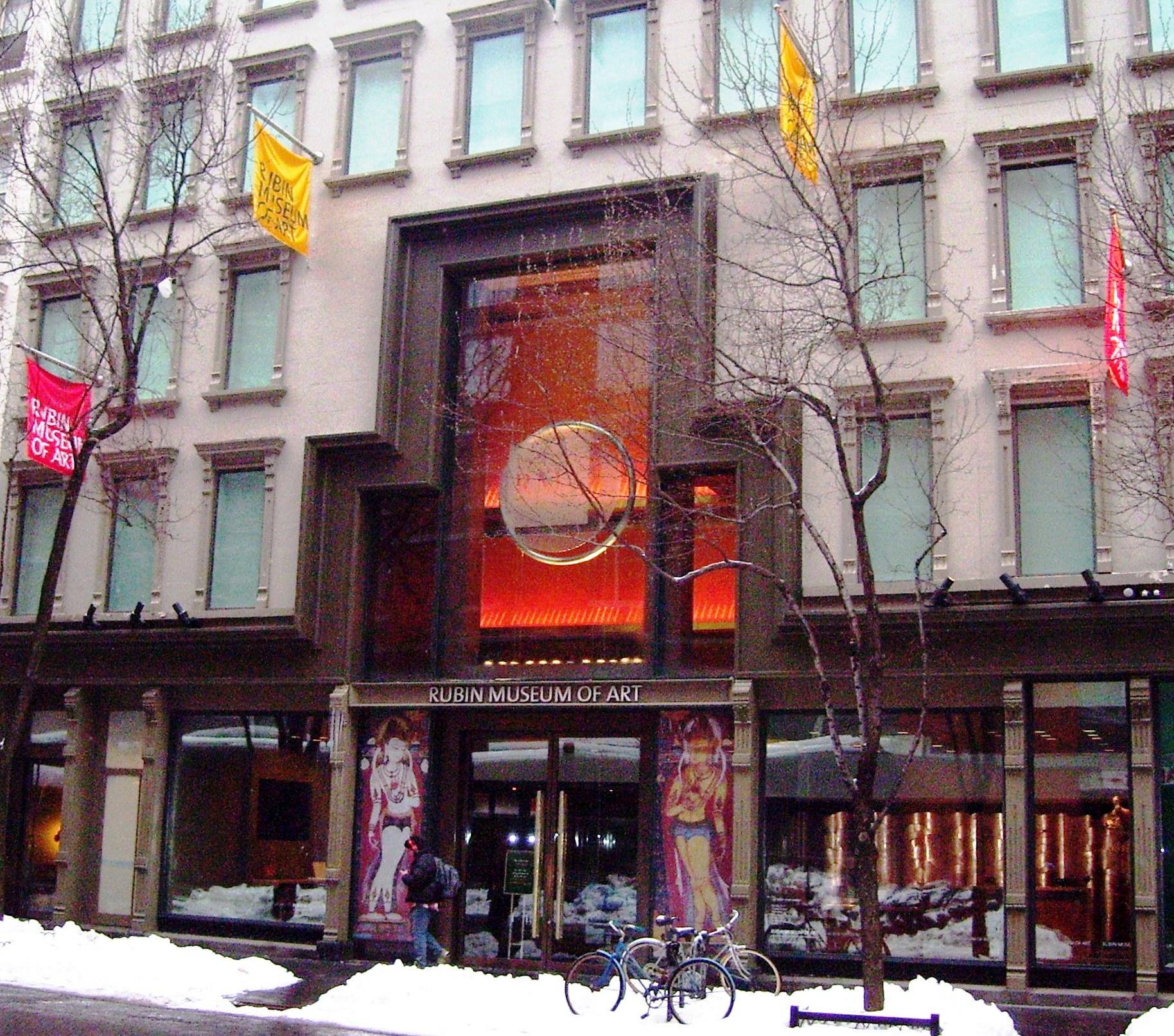 Rubin Museum of Art at 150 West 17th Street between the Avenue of the Americas (Sixth Avenue) and Seventh Avenue in the Chelsea neighborhood of Manhattan, New York City.